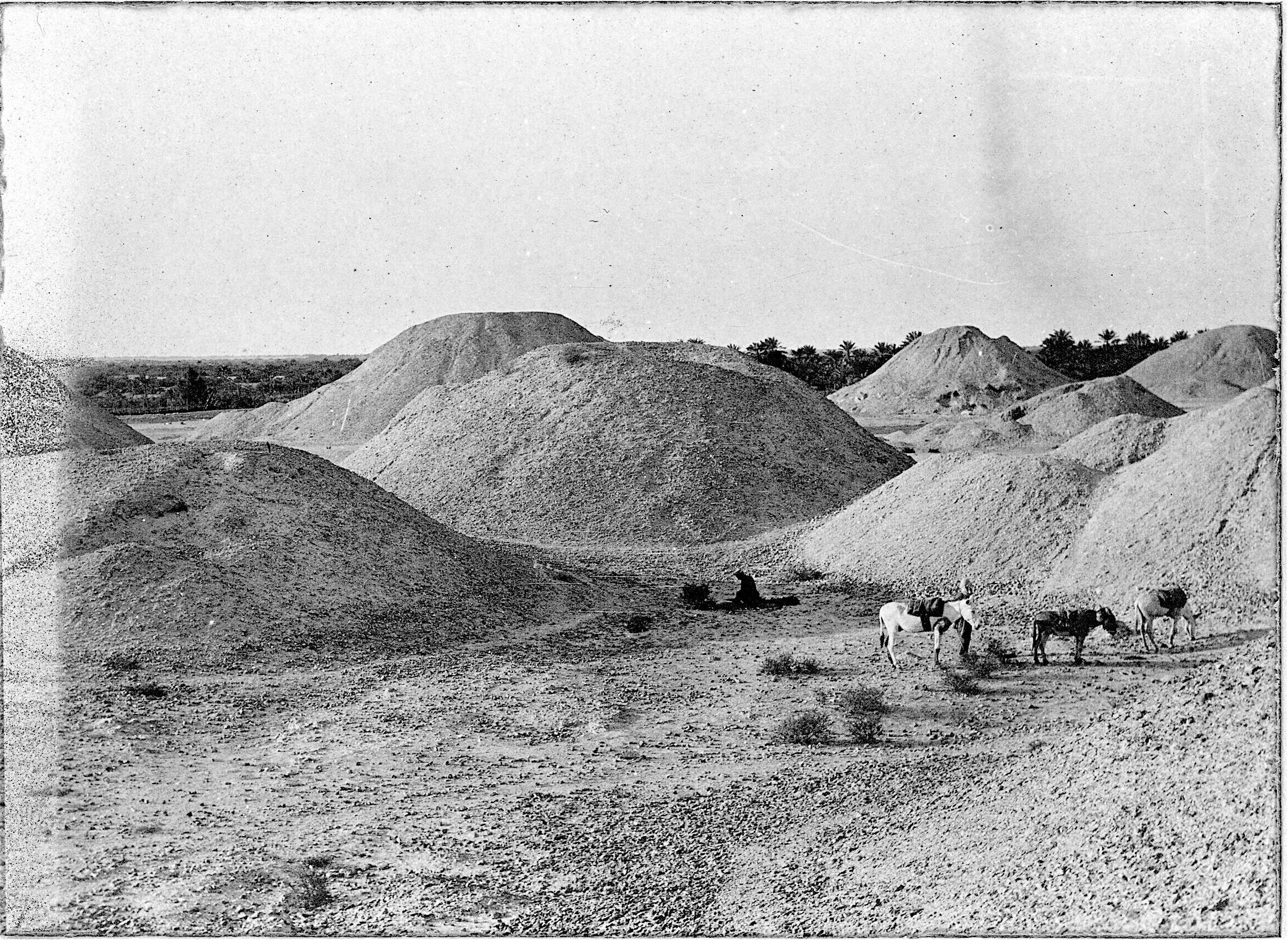 At right three donkeys are tethered, with a man standing alongside one of them. At centre a man appears to be kneeling, perhaps praying.